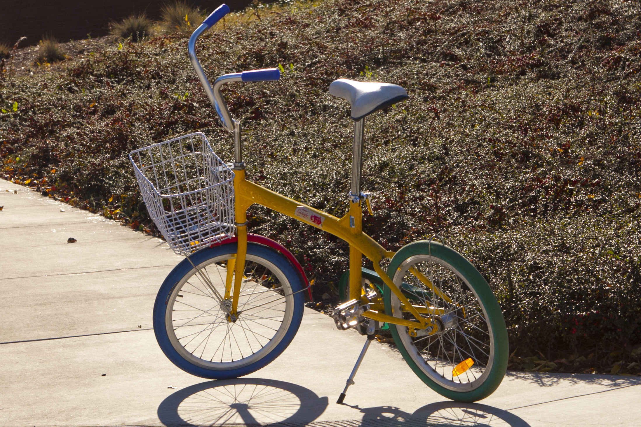 Bicycle Used on Googleplex